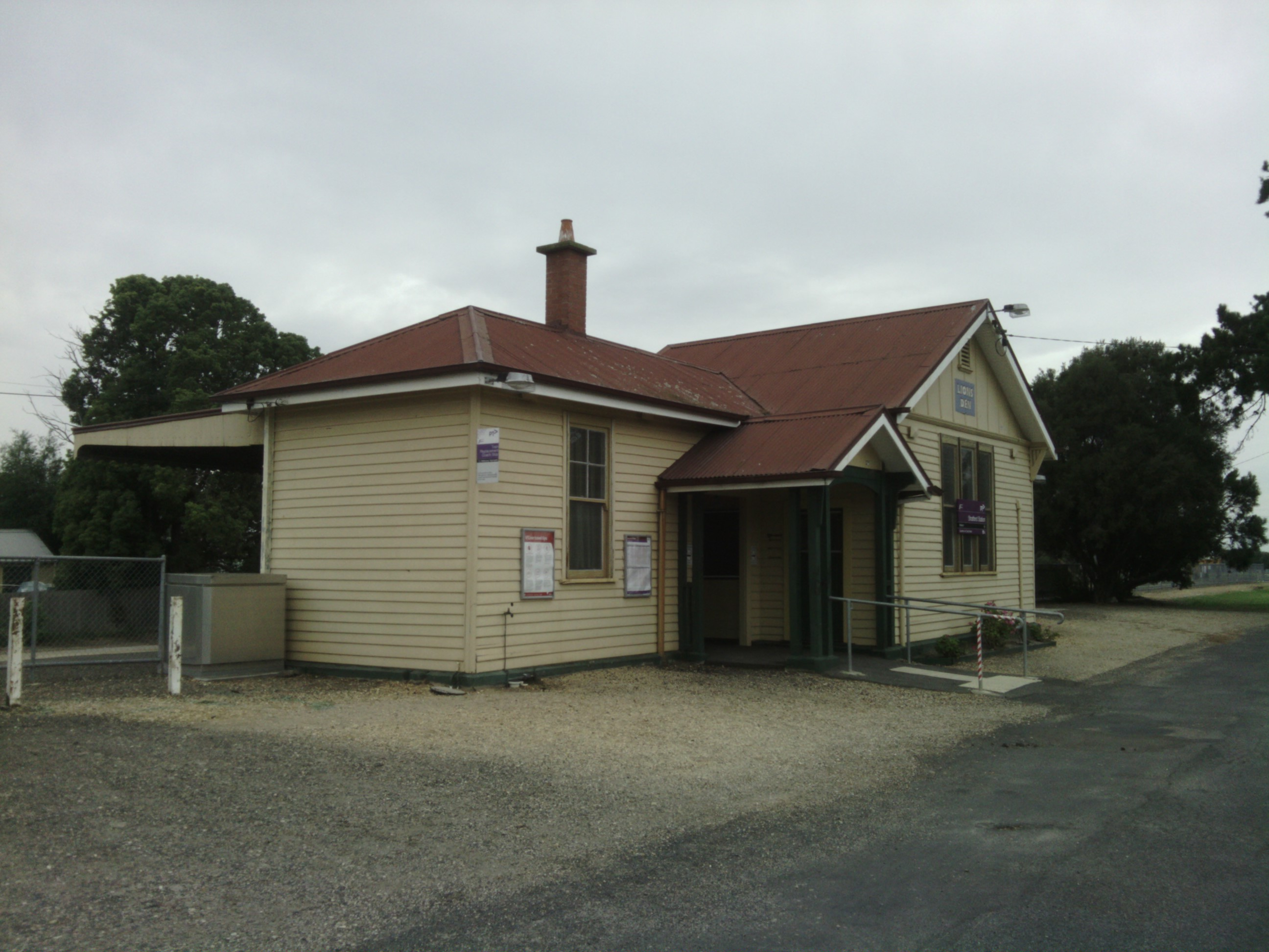 Photo of Stratford railway station.